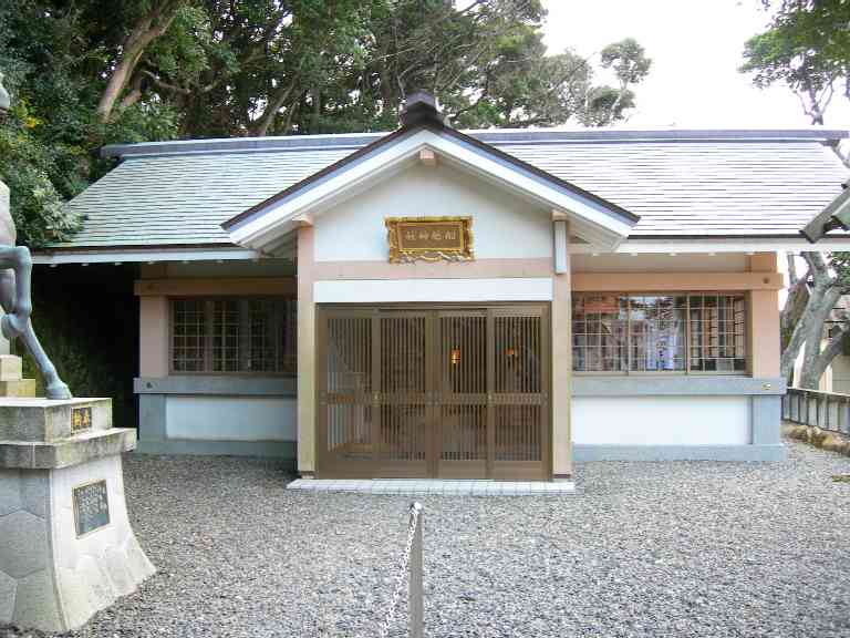 Funakoshi-jinja at Daiou-Funakoshi, Shima city, Mie prefecture Japan.